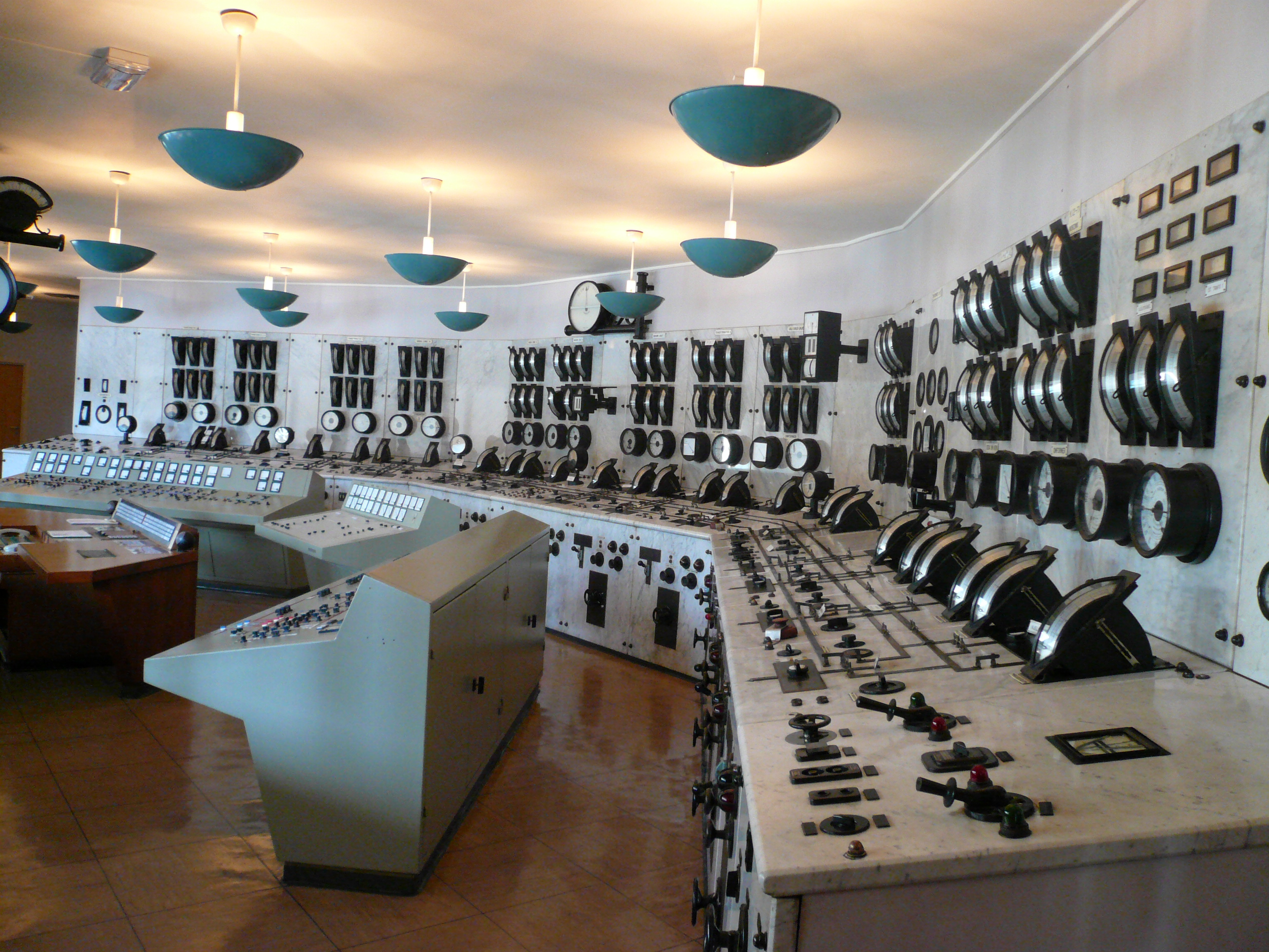 Tyssedal